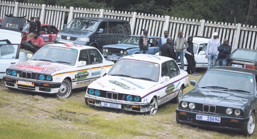 African motor sport This is an image of "African people at work" from Botswana